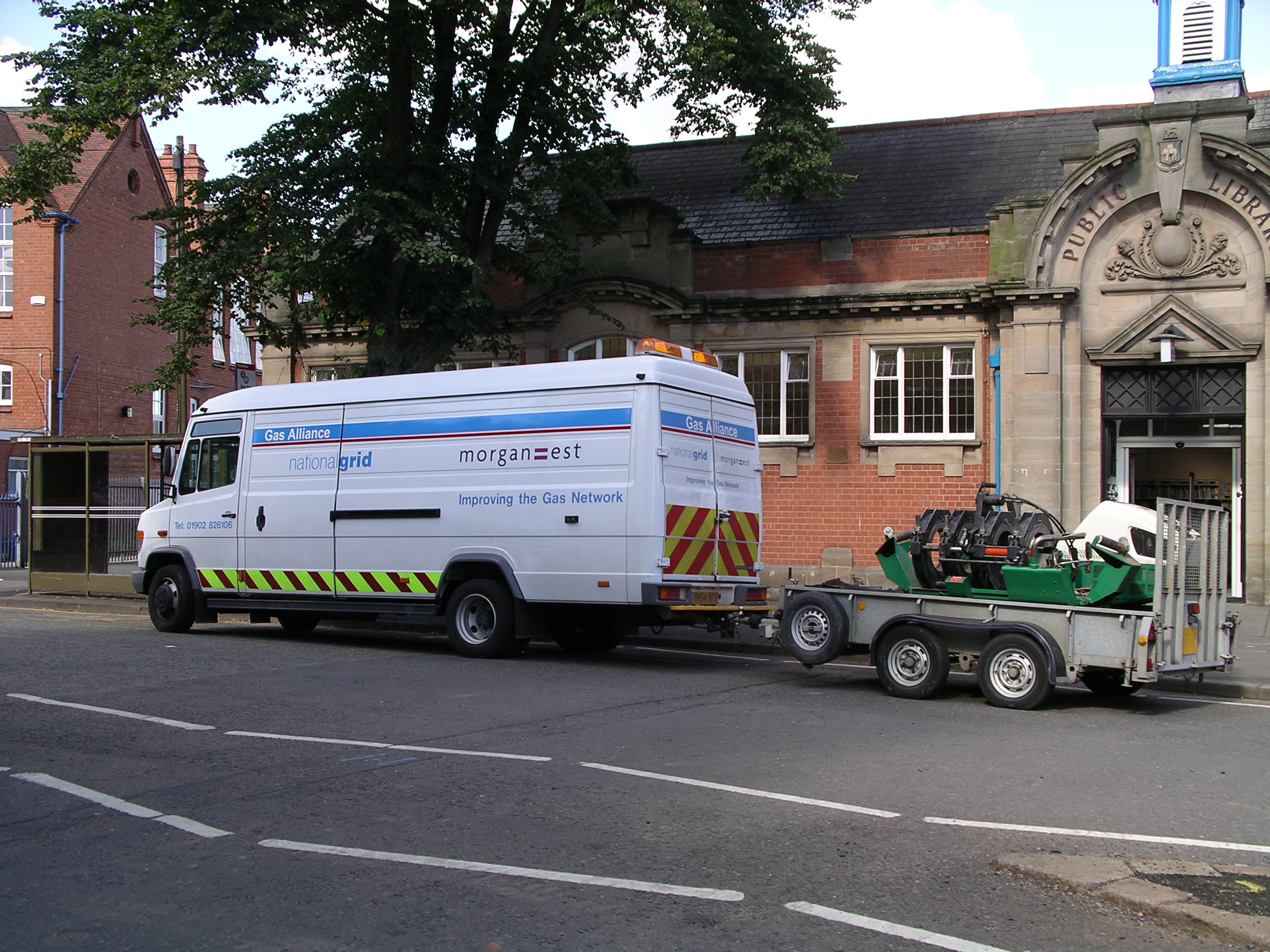 Photo of a Contractors Mercedes-Benz Vario (Morgan Est) undertaking work on behalf of National Grid. Photo taken in Coventry, England.